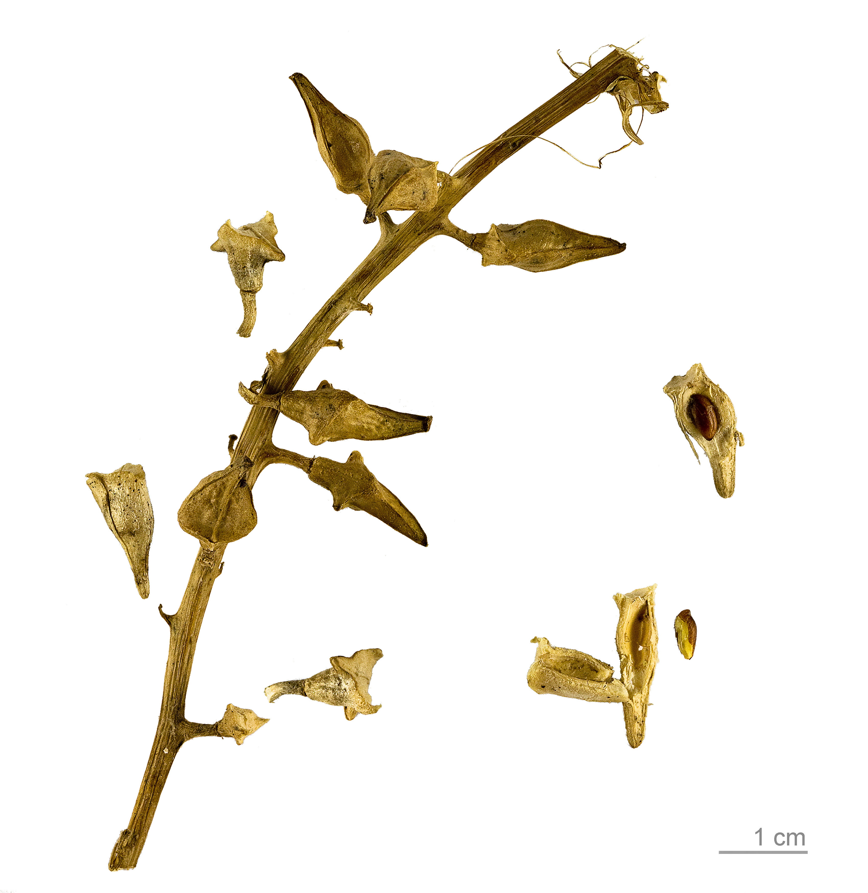 Sea Rocket , fruit and seeds